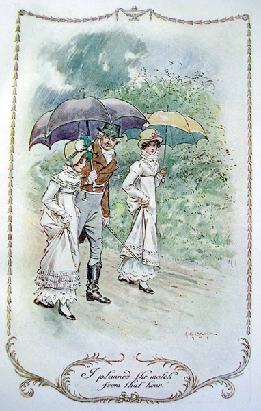 Colour illustration of a 1909 edition of Emma (Jane Austen's novel), by C. E. Brock (died 1938)